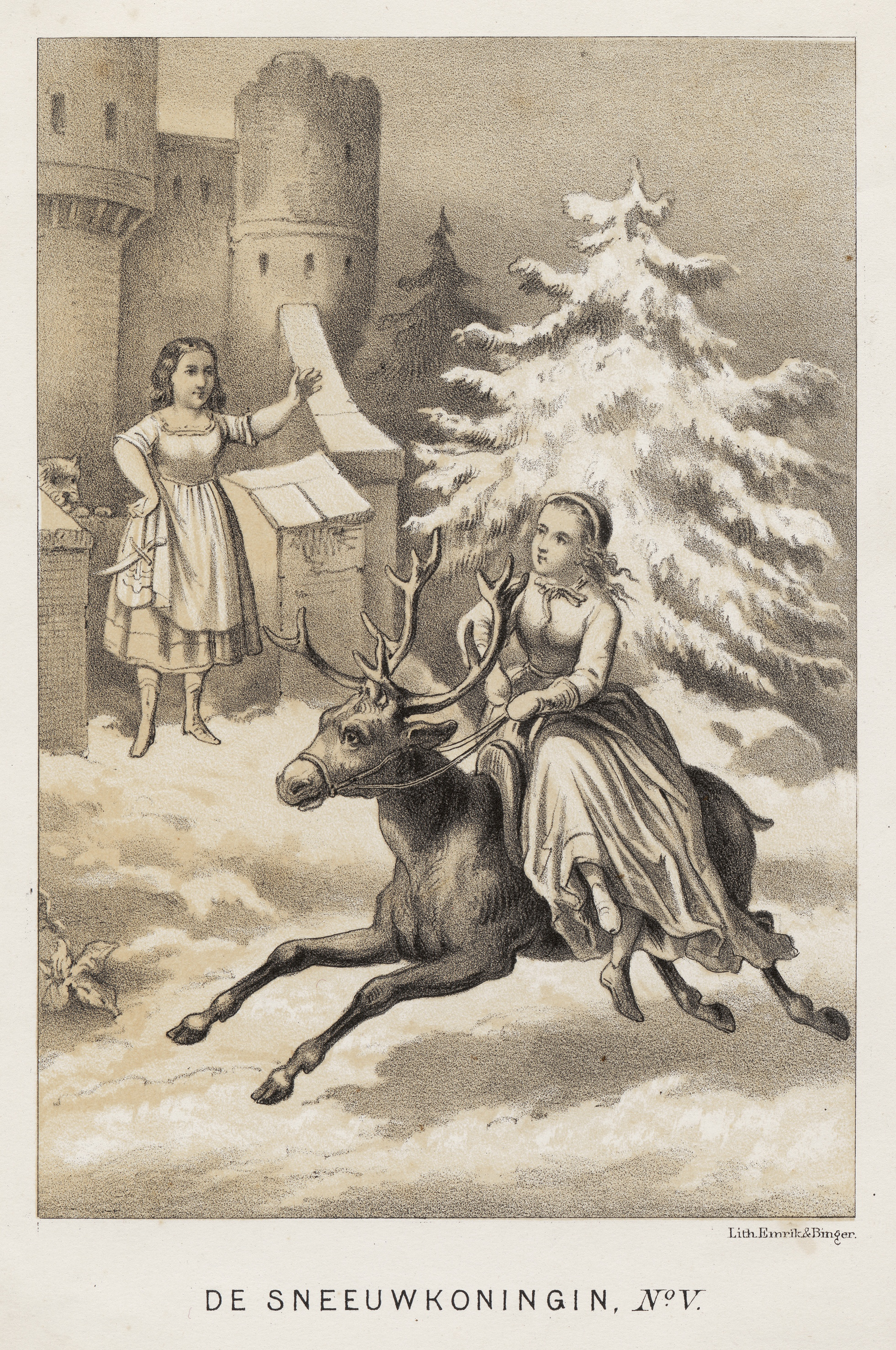 Andersen's sproken en vertellingen, Dl. 3 / naverteld door S.J. Andriessen ; [ill. Hutschenreuter]. - 2e verm. dr. - Nijmegen ; Arnhem : Cohen, [1880] Image uploaded on 02-10-2013 from the Flickr stream of the Royal Library, The Hague (Koninklijke Bibliotheek, KB, national library of the Netherlands)